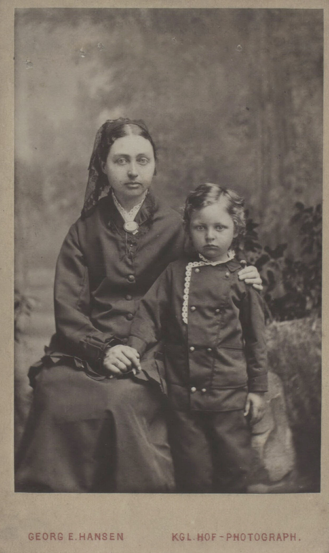 Photograph of the Danish artist Anthonie Eleonore Christensen (also Anthonore Christensen) with her son Axel Anthon from the Royal Danish Library collection